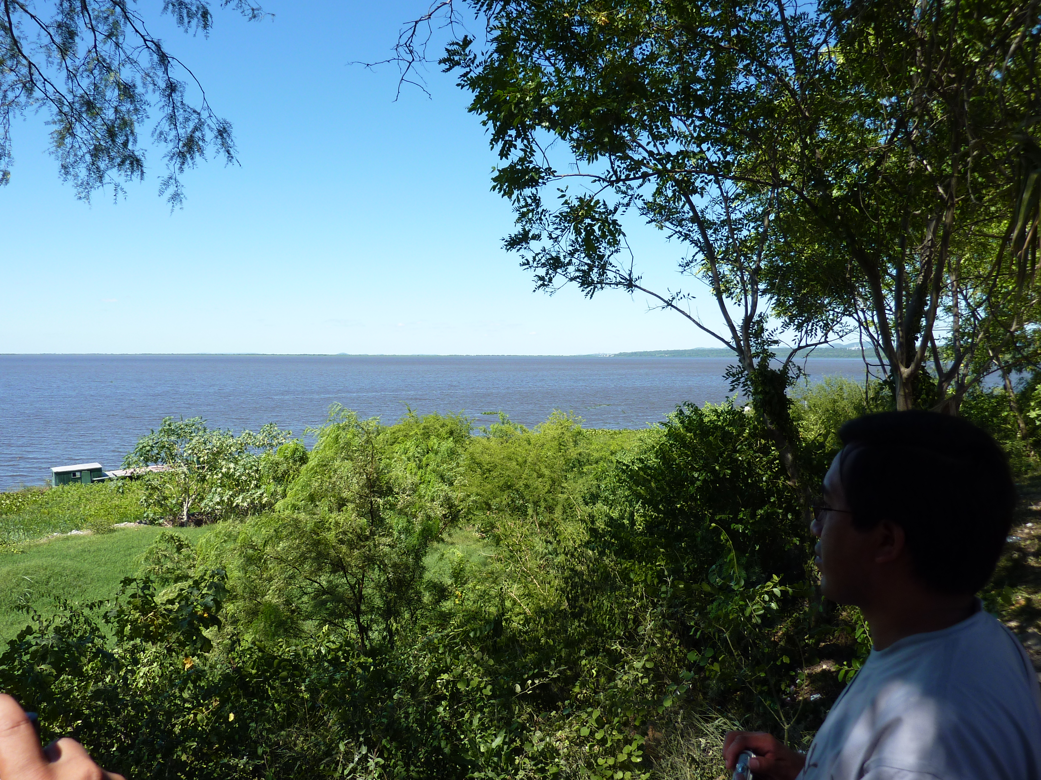 Meeting of the "Fraile Jóvenes" in Puerto Suarez, Bolivia.